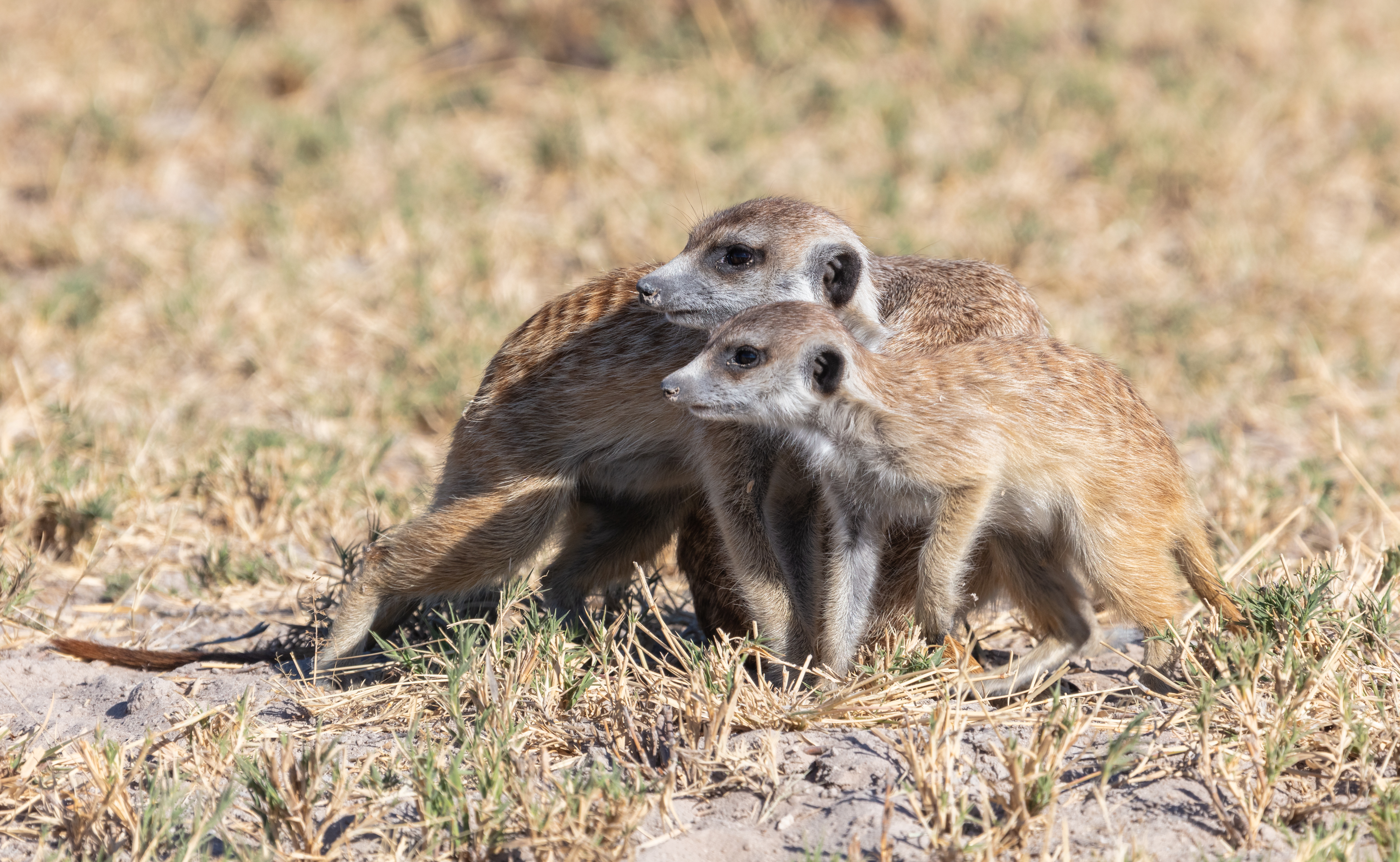 Meerkats (Suricata suricatta), Makgadikgadi Pans National Park, Botswana